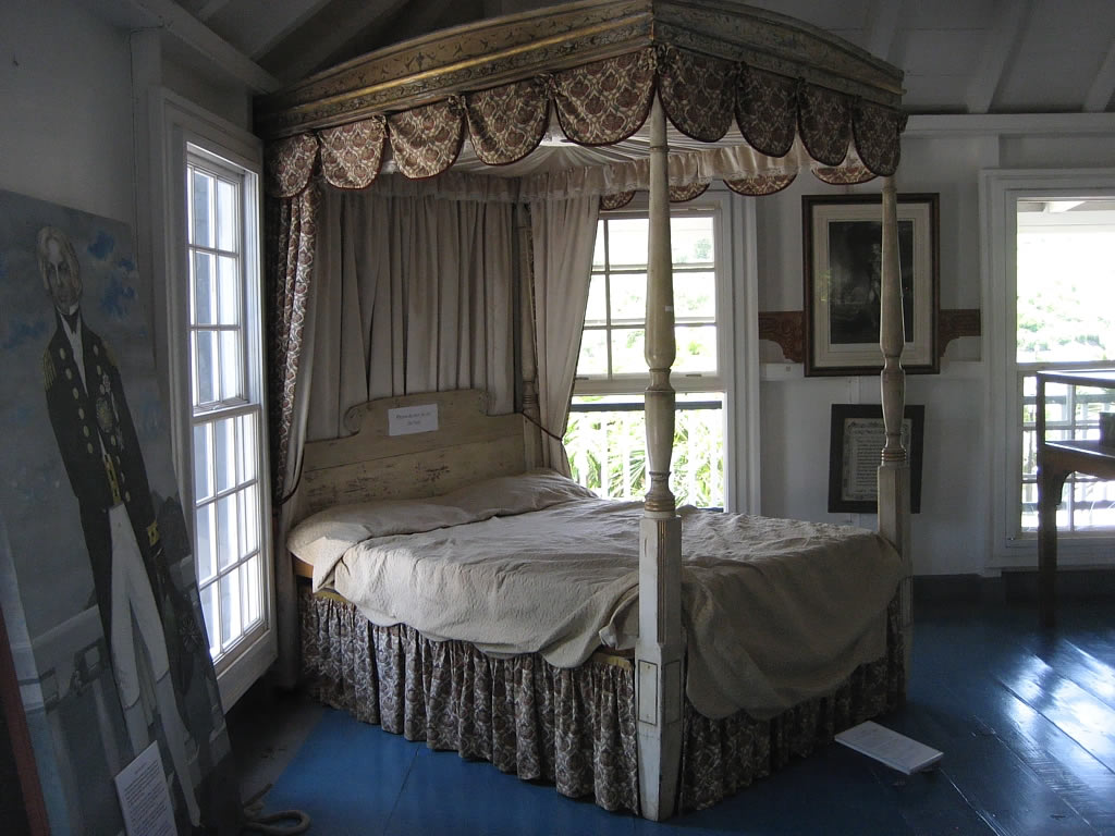 Admiral Horatio Nelson's bed in the Dockyard Museum at Nelson's Dockyard, Antigua